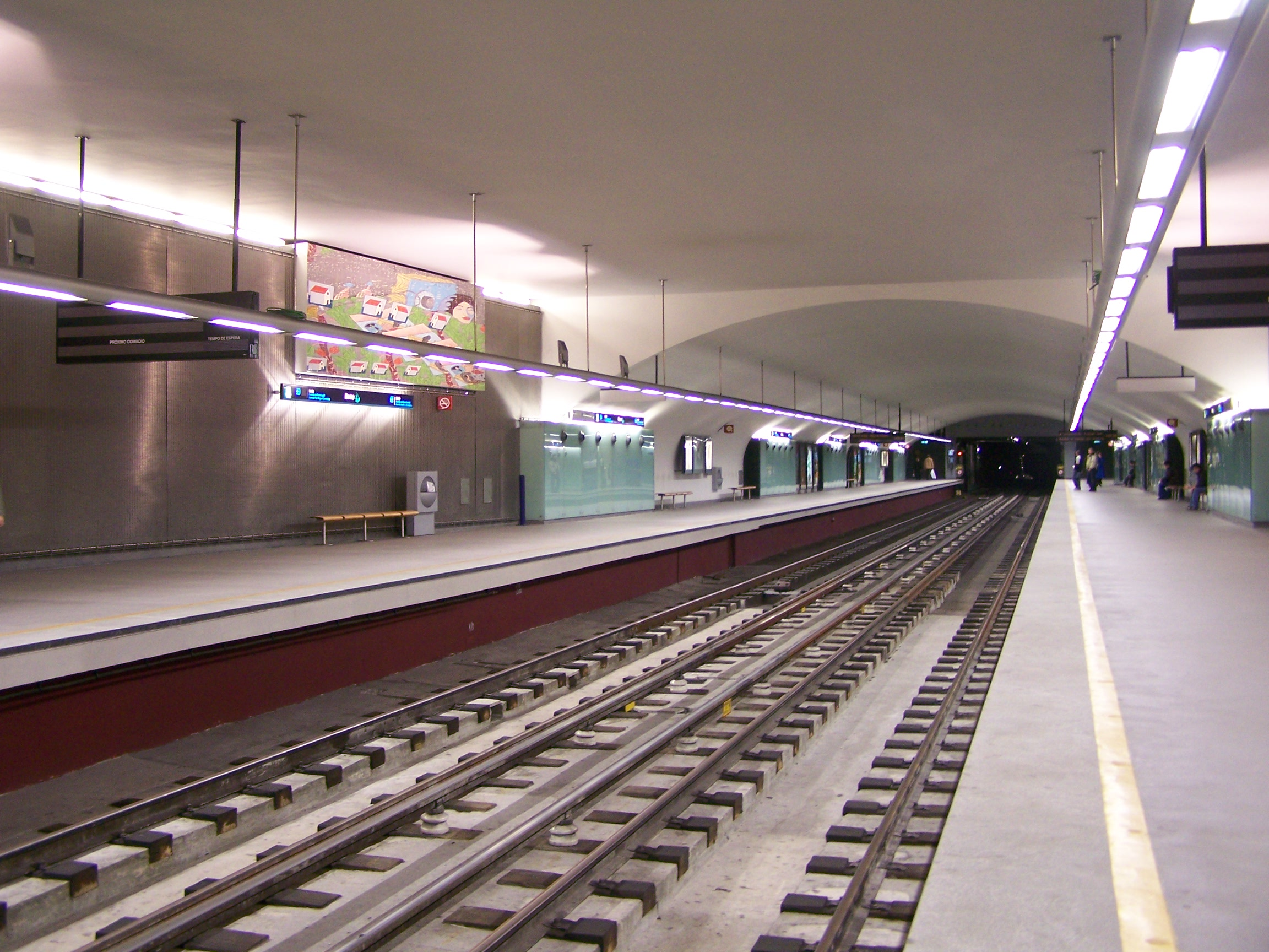 The platforms at Roma underground station, Linha Verde.